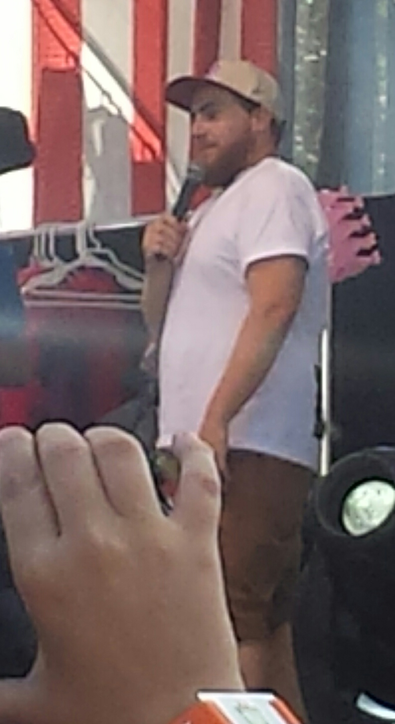 Phil Roy photographed in Montreal, Quebec, Canada at the Just For Laughs festival.